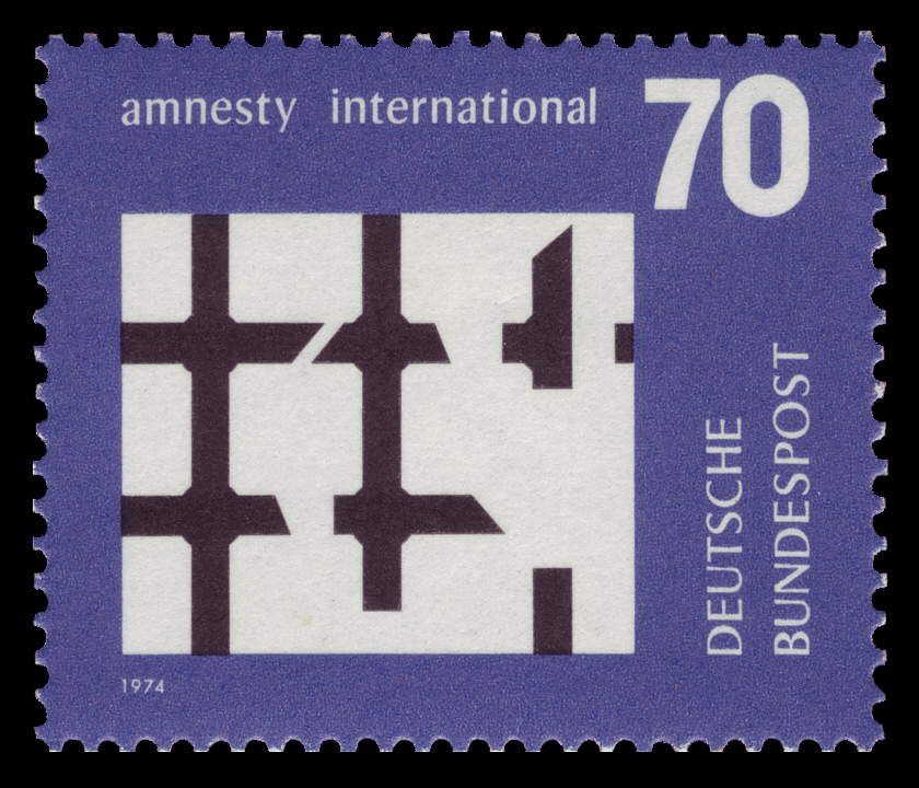 Amnesty International Graphics by Gaßner Ausgabepreis: 70 Pfennig First Day of Issue / Erstausgabetag: 16. Juli 1974 Michel-Katalog-Nr: 814